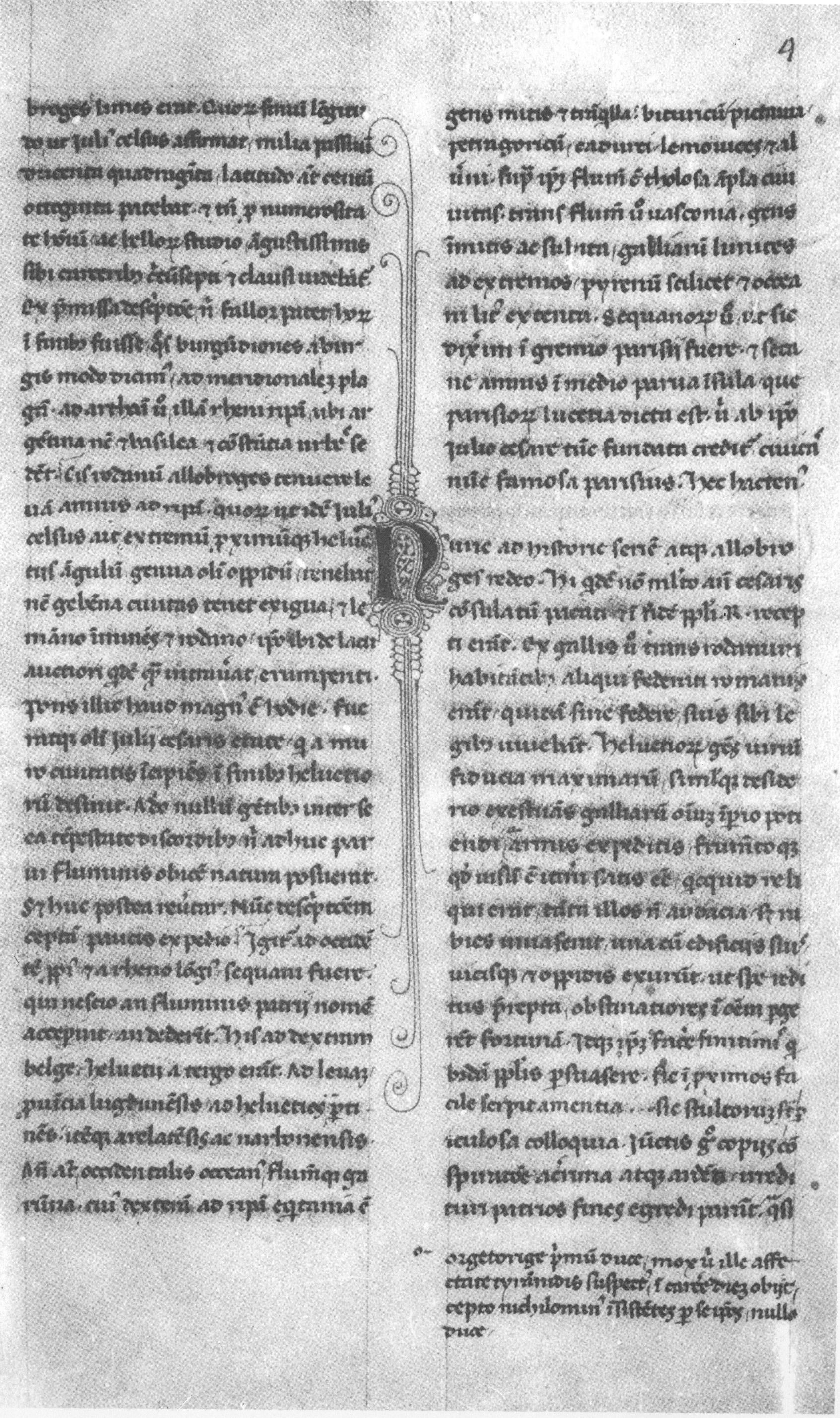 Petrarch, De viris illustribus, autograph. Paris, Bibliothèque Nationale, Lat. 5784, fol. 4r.